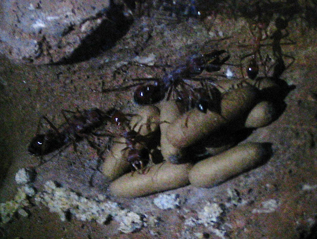 Underground chamber in Red Bull Ant (Myrmecia gulosa) nest at Sydney Wildlife World.